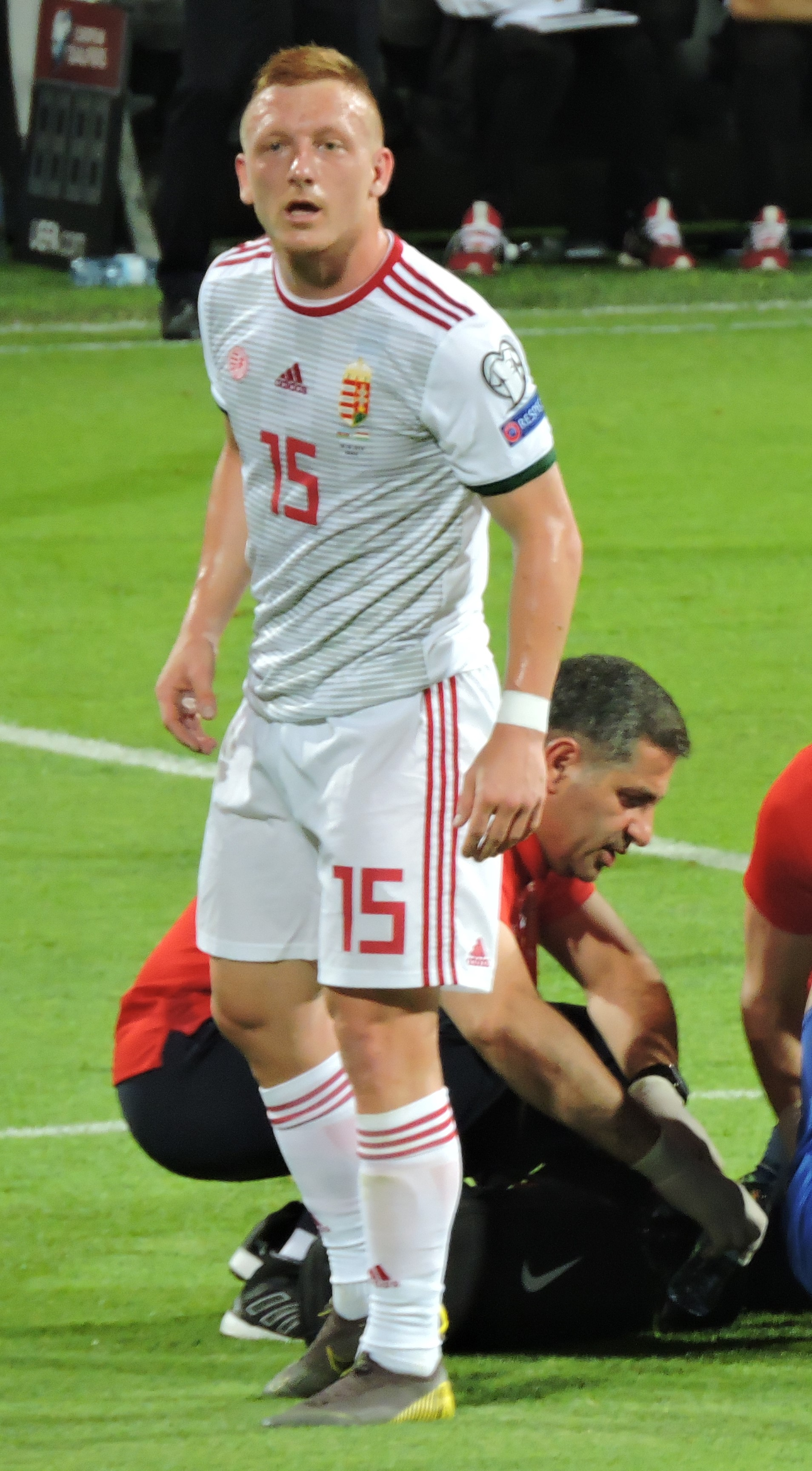 László Kleinheisler versus Azerbaijan national team in Euro 2020 qualification